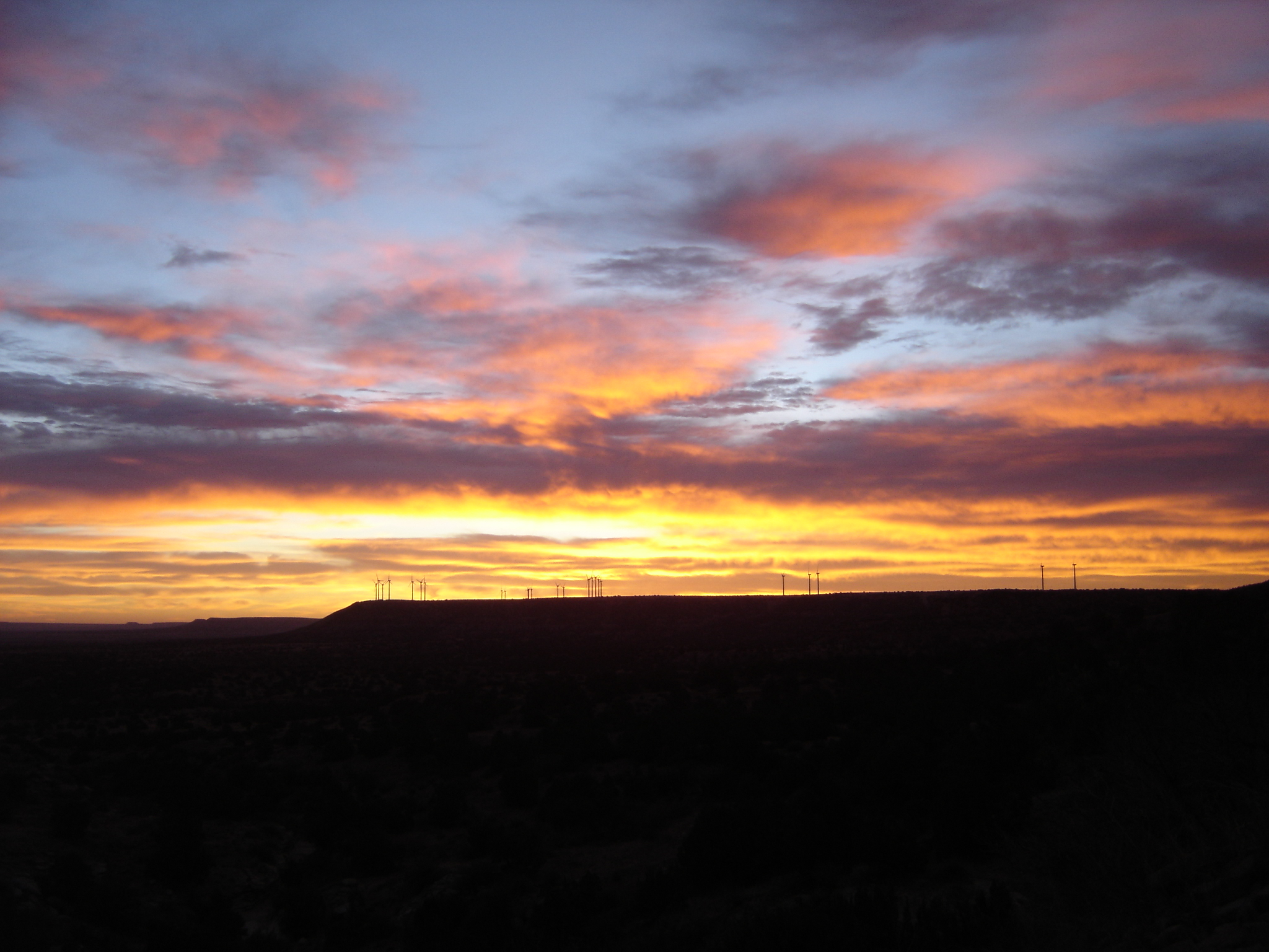 Sunrise over the Llano Estacado caprock in Eastern New Mexico. Position is on NM-469 just south of San Jon. Taken November 24, 2006 by Wikipedia user Turn the page fault. Note the wind turbines on the edge.